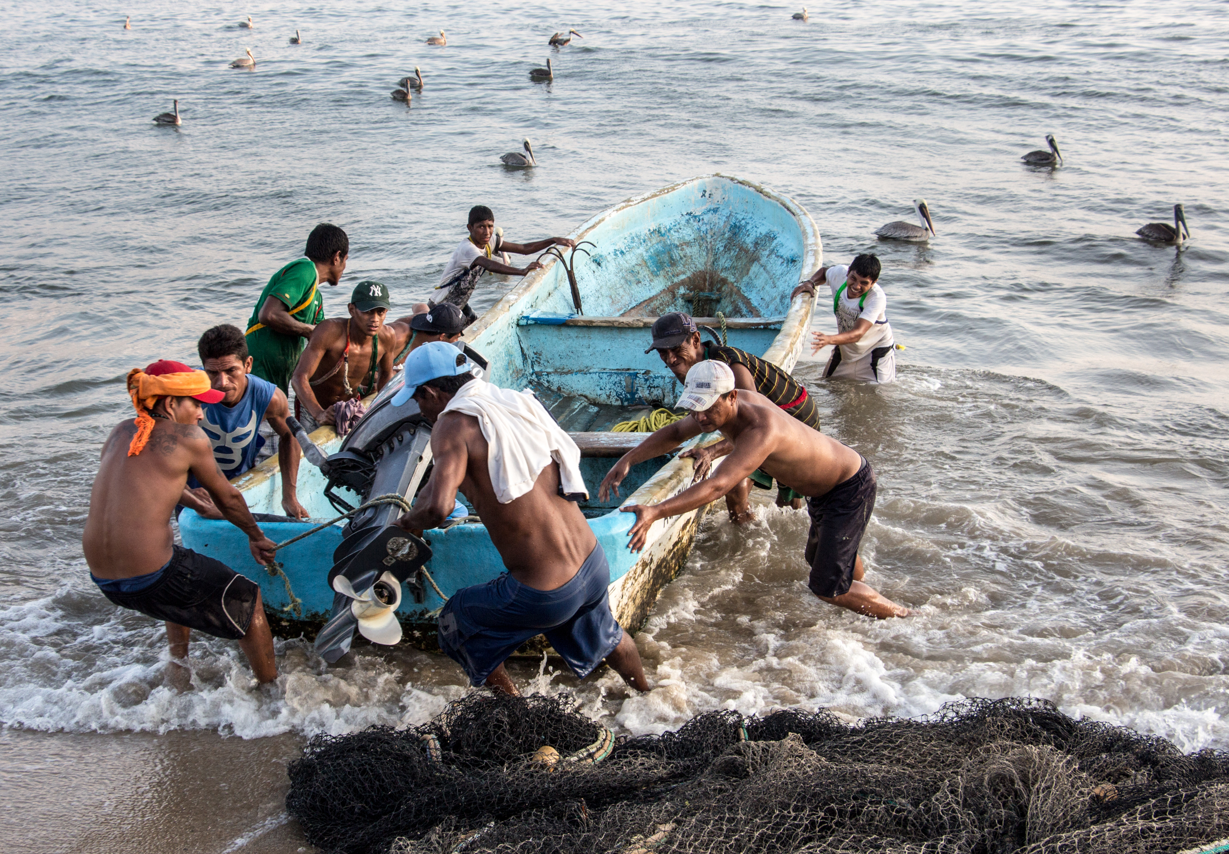 Fishermen in Acapulco, Mexico.